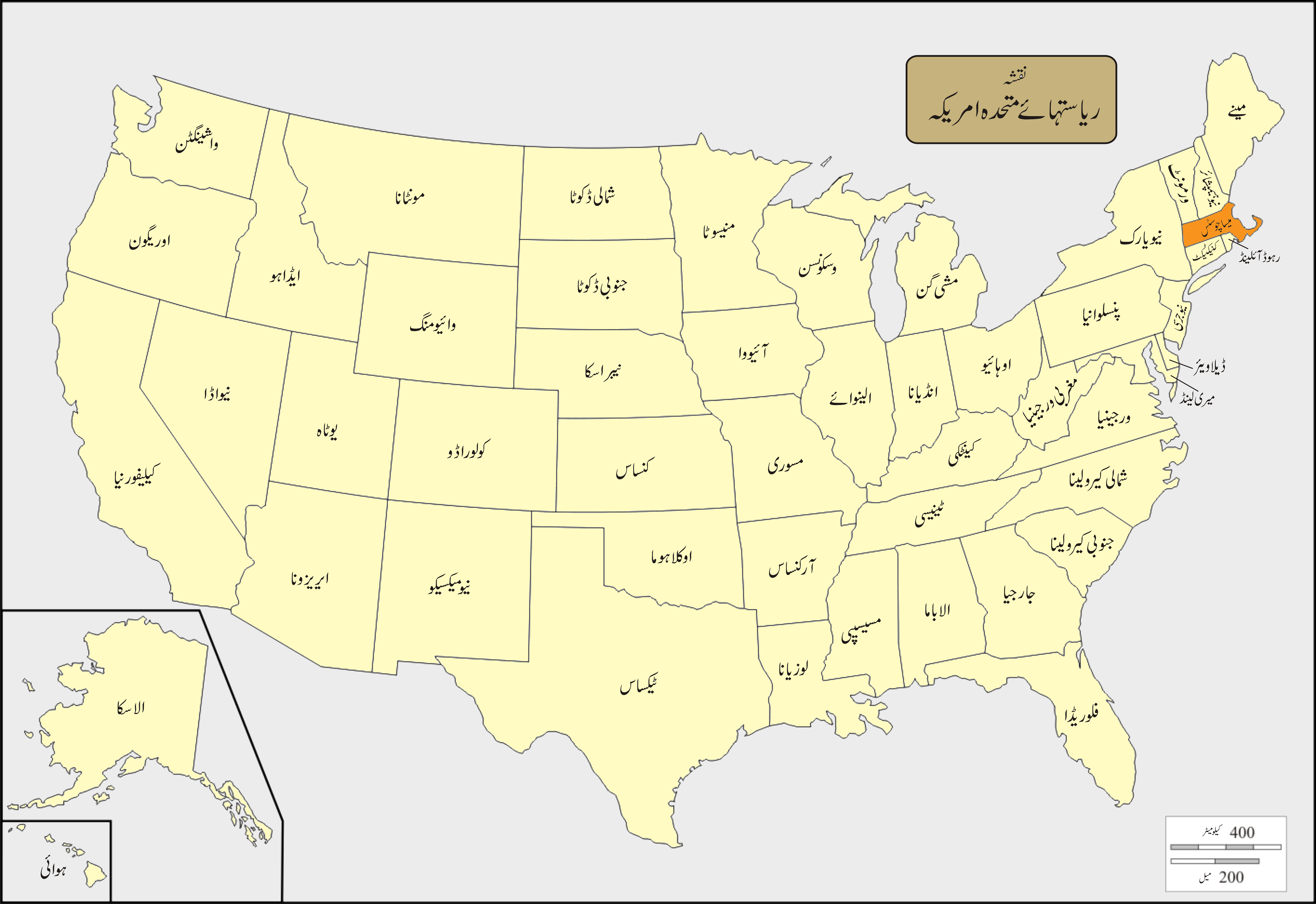 USA Names Massachusetts